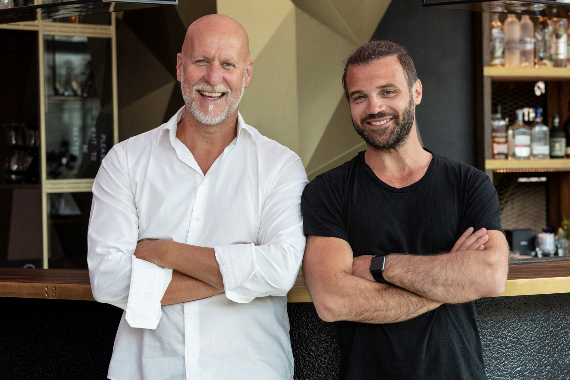 Rainer Schaller and Vito Scavo, Management of the RSG Group